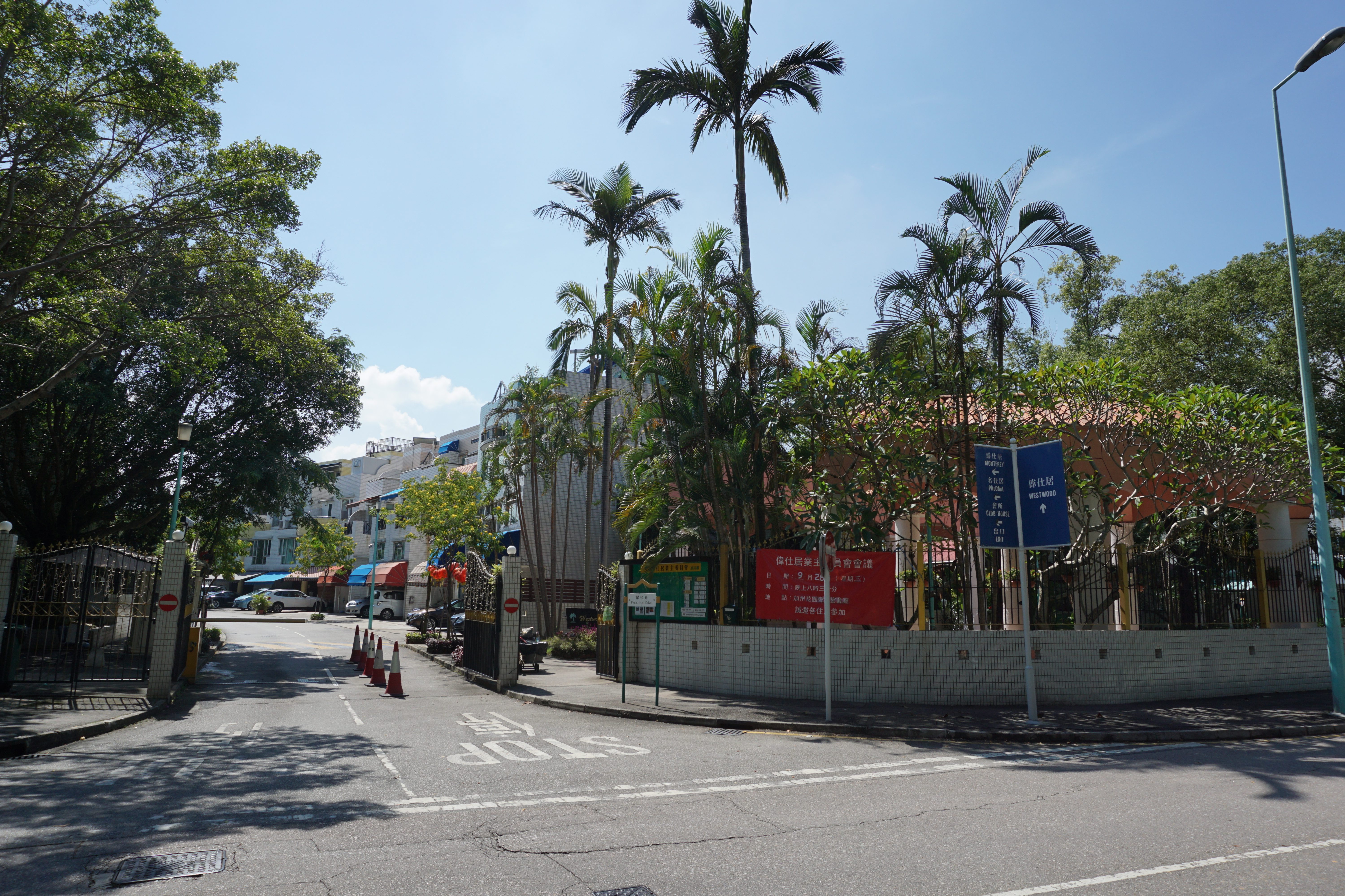 Palm Springs in Wo Shang Wai, Hong Kong.